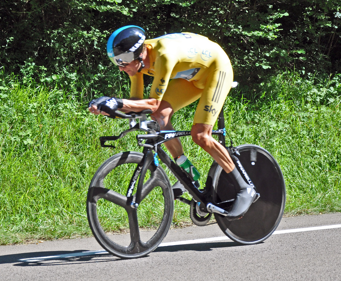 Bradley Wiggins during Tour de France stage 9 on the way to his first stage win